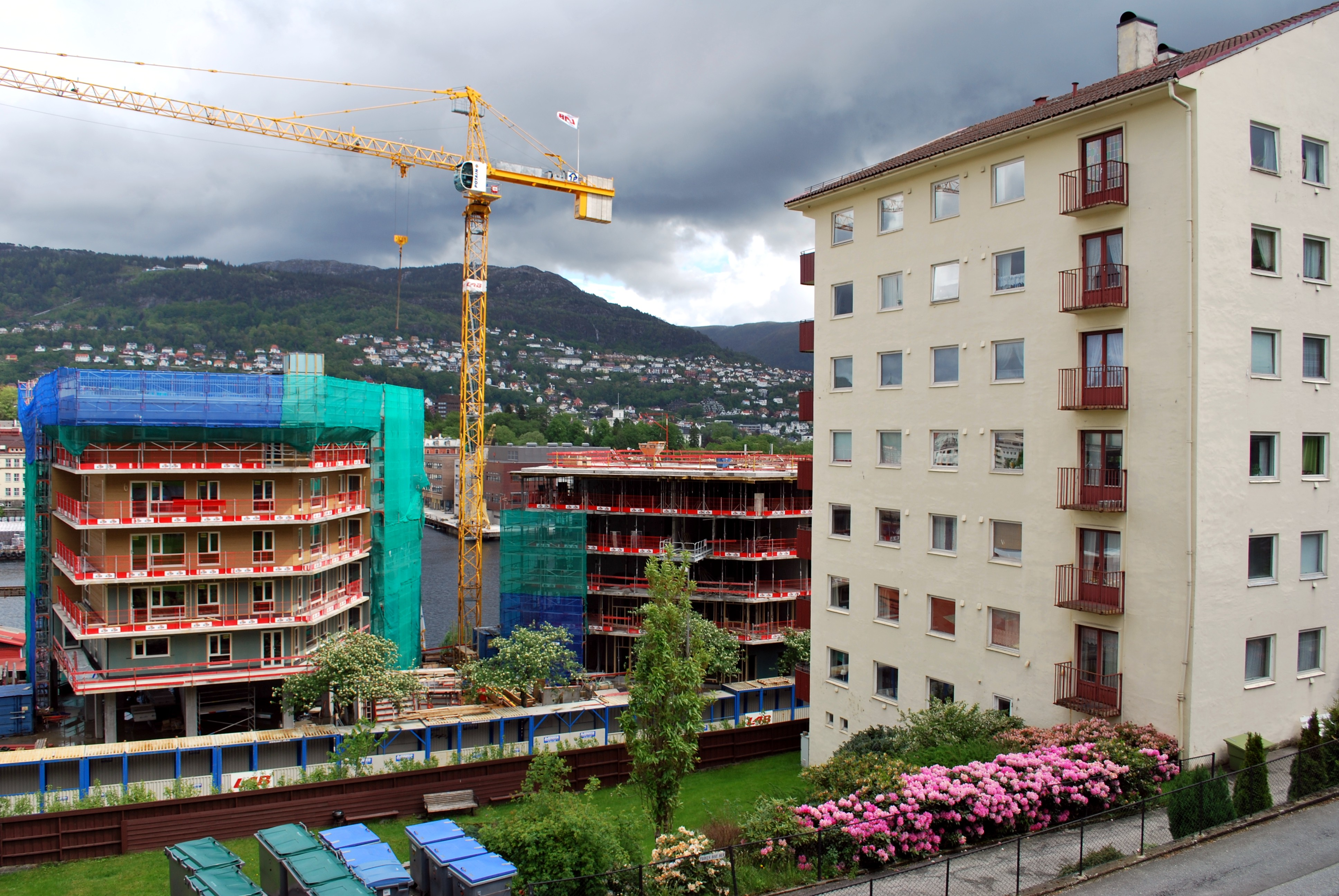 Old building and new housing under construction at Gyldenpris in Bergen.